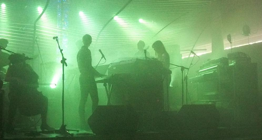 Susanne Sundfør (center right) and her band during their gig in the church of Steinkjer (Steinkjerfestival 2012).